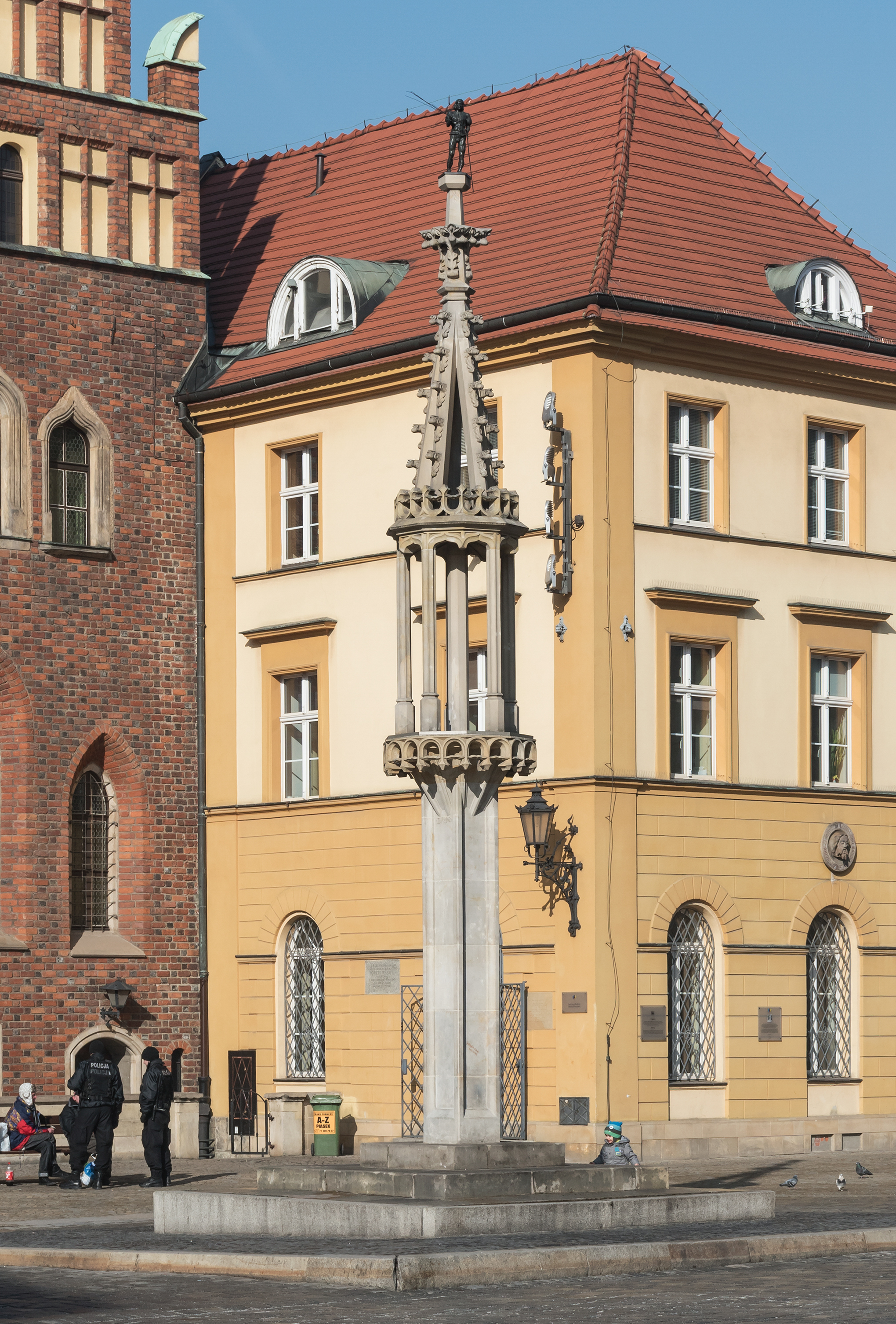 Pillory in Wrocław